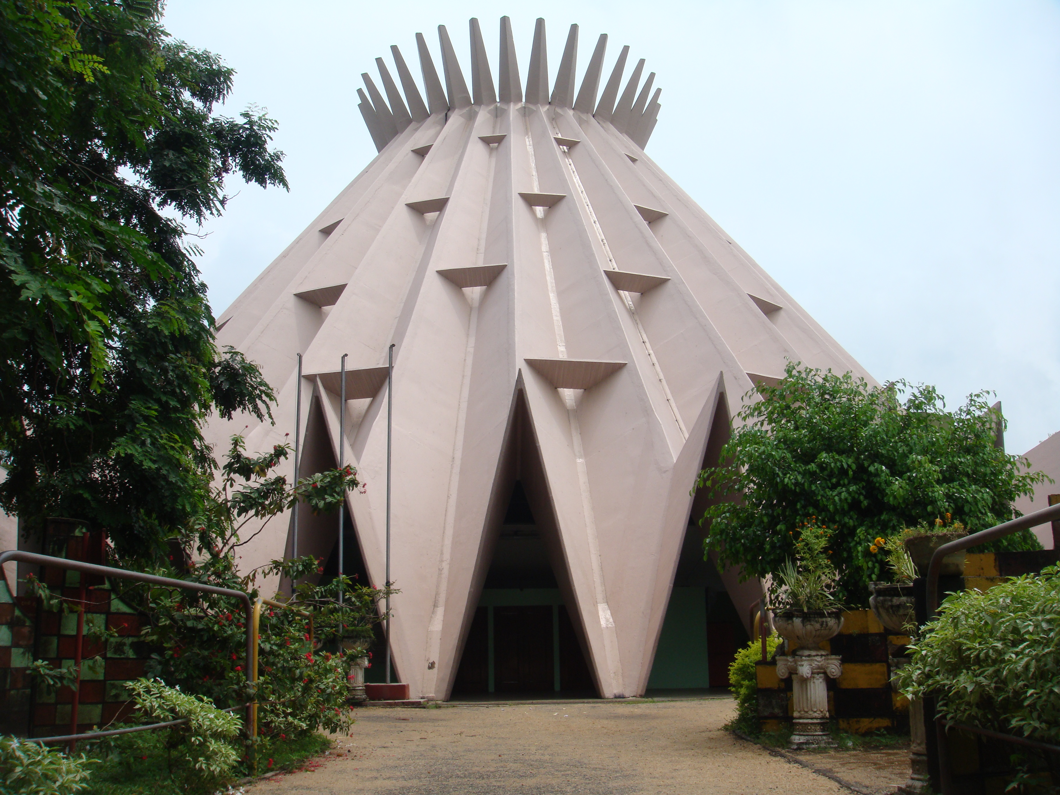 this is sri lanka planetarium